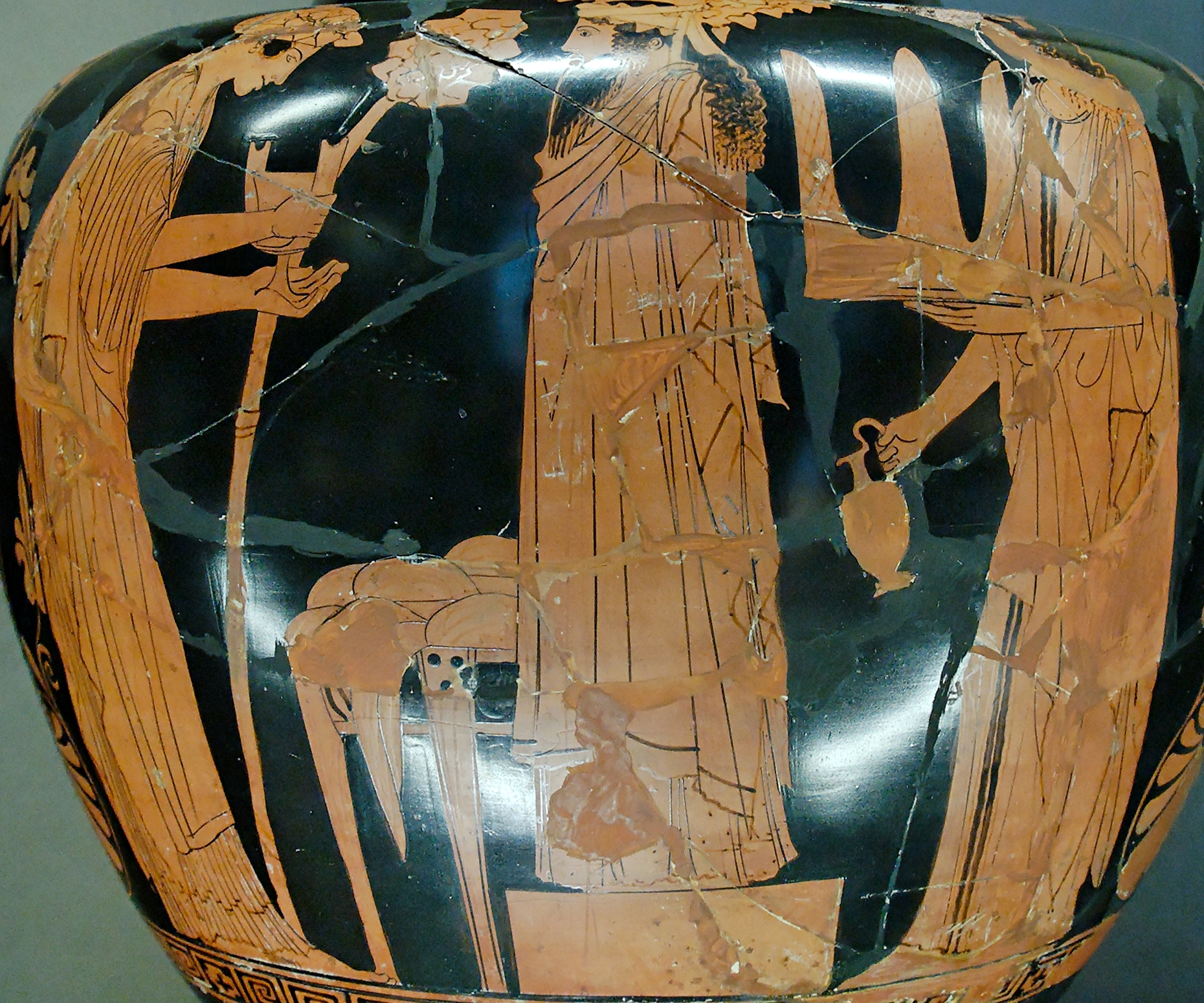 Dionysiac cult. Detail from an Attic red-figure stamnos, ca. 450-440 BC. From Vulci.